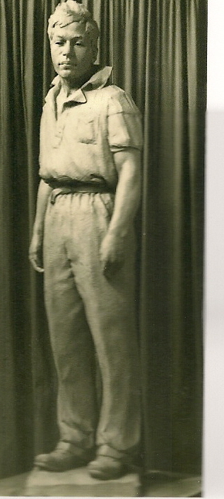 Bill the Smith, sculpted by William Lamb in Montrose